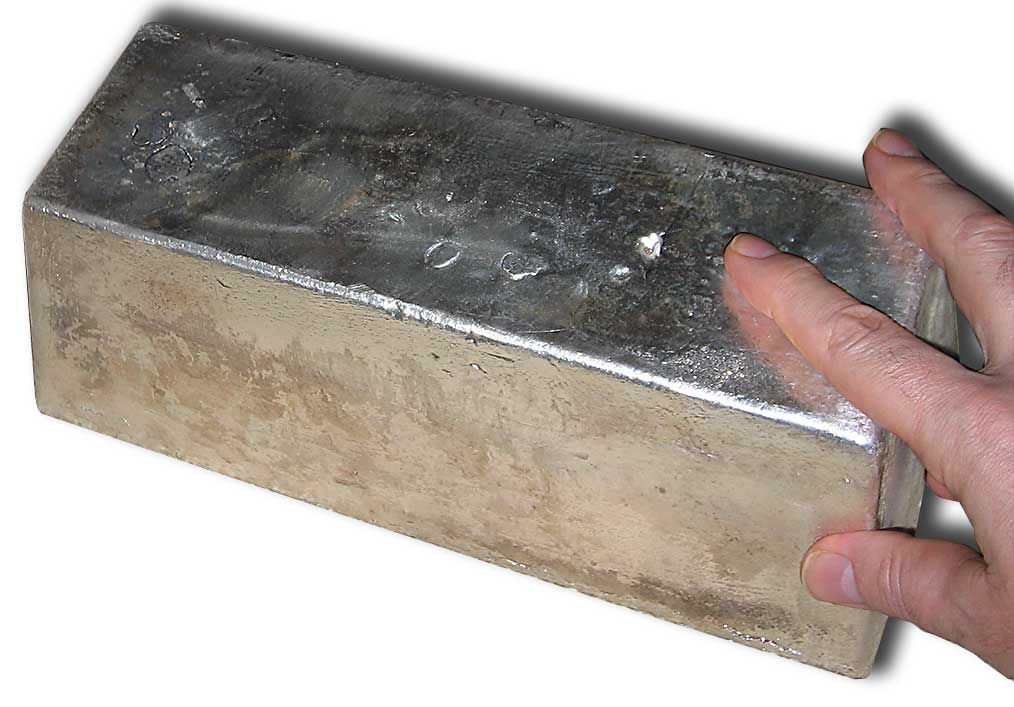 Silver bullion bar 1000oz top view